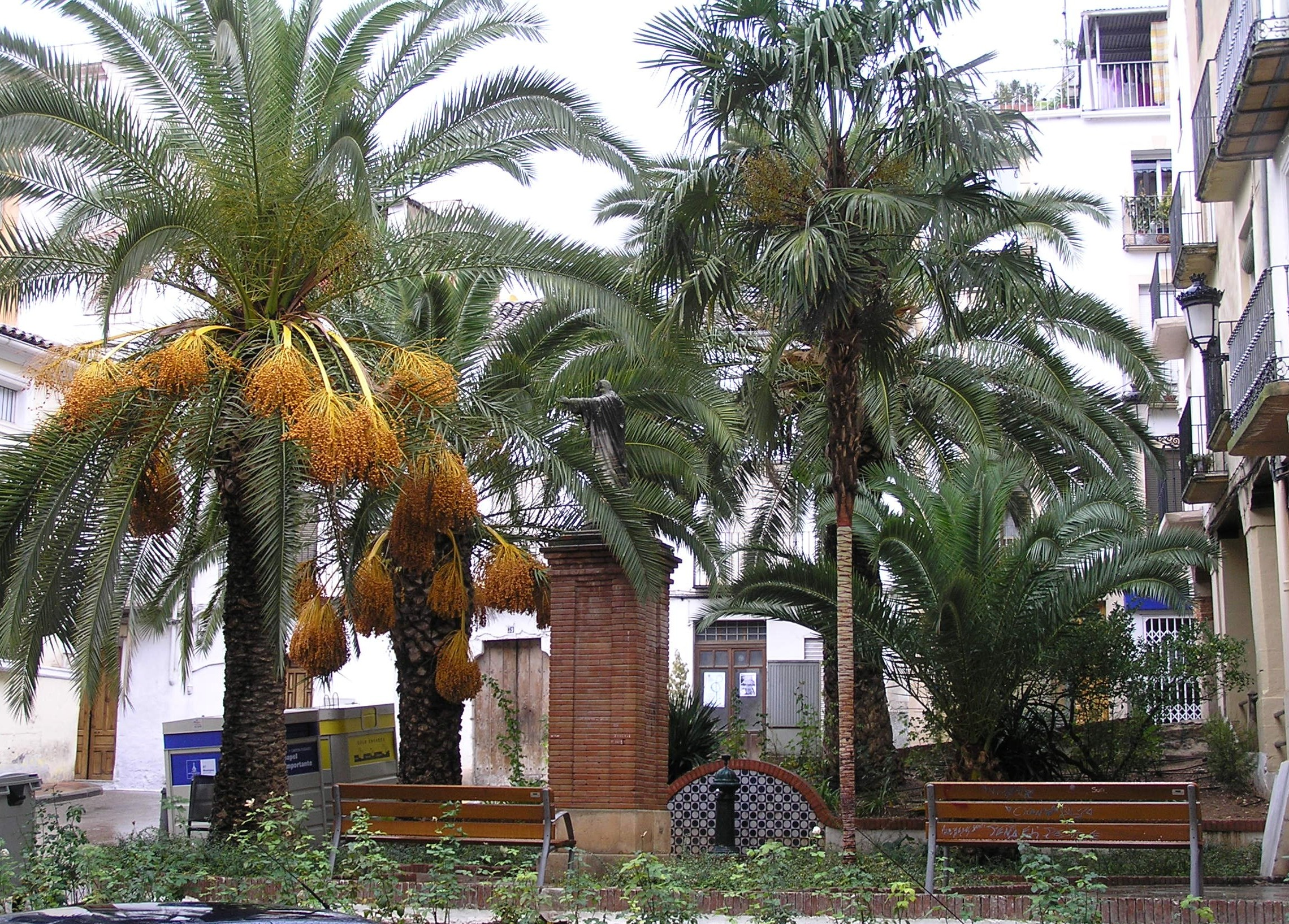 Plaza del Sagrado Corazón